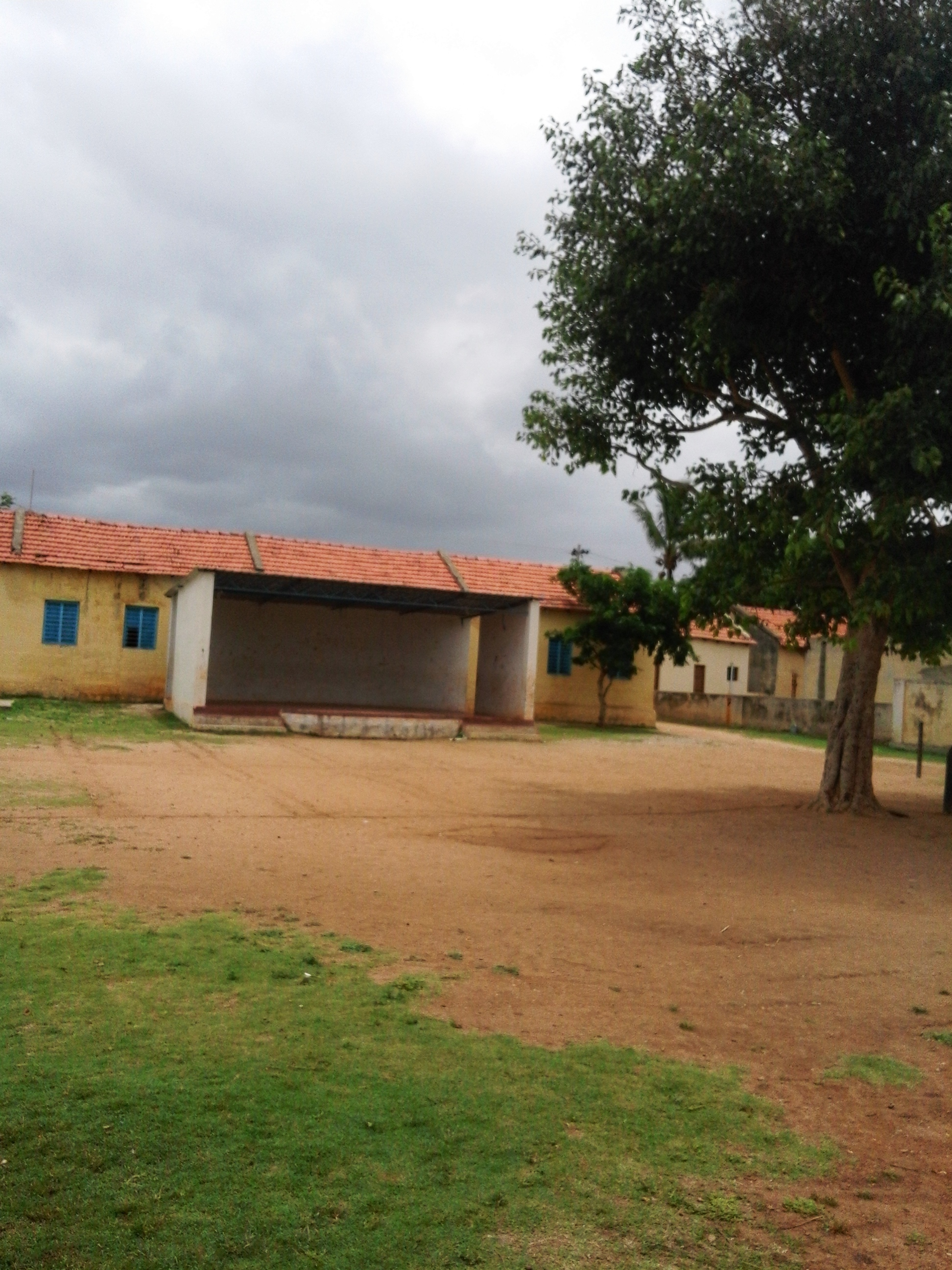 Badanvalu village, Nanjangud Taluk, Mysore District, Karnataka state, India.